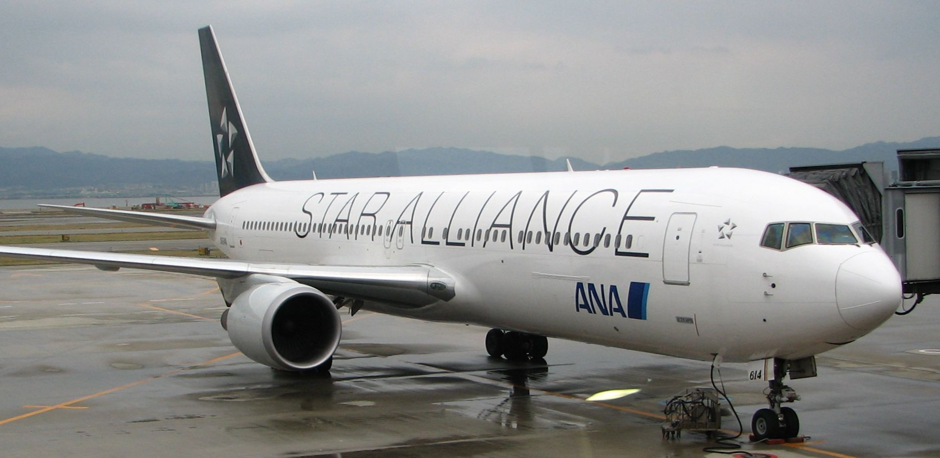 All Nippon Airways Boeing 767 in Star Alliance livery, photographed Kansai International Airport April 2006.